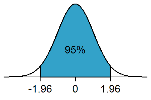 Standard normal distribution shading area between −1.96 and 1.96 standard deviations away from the mean